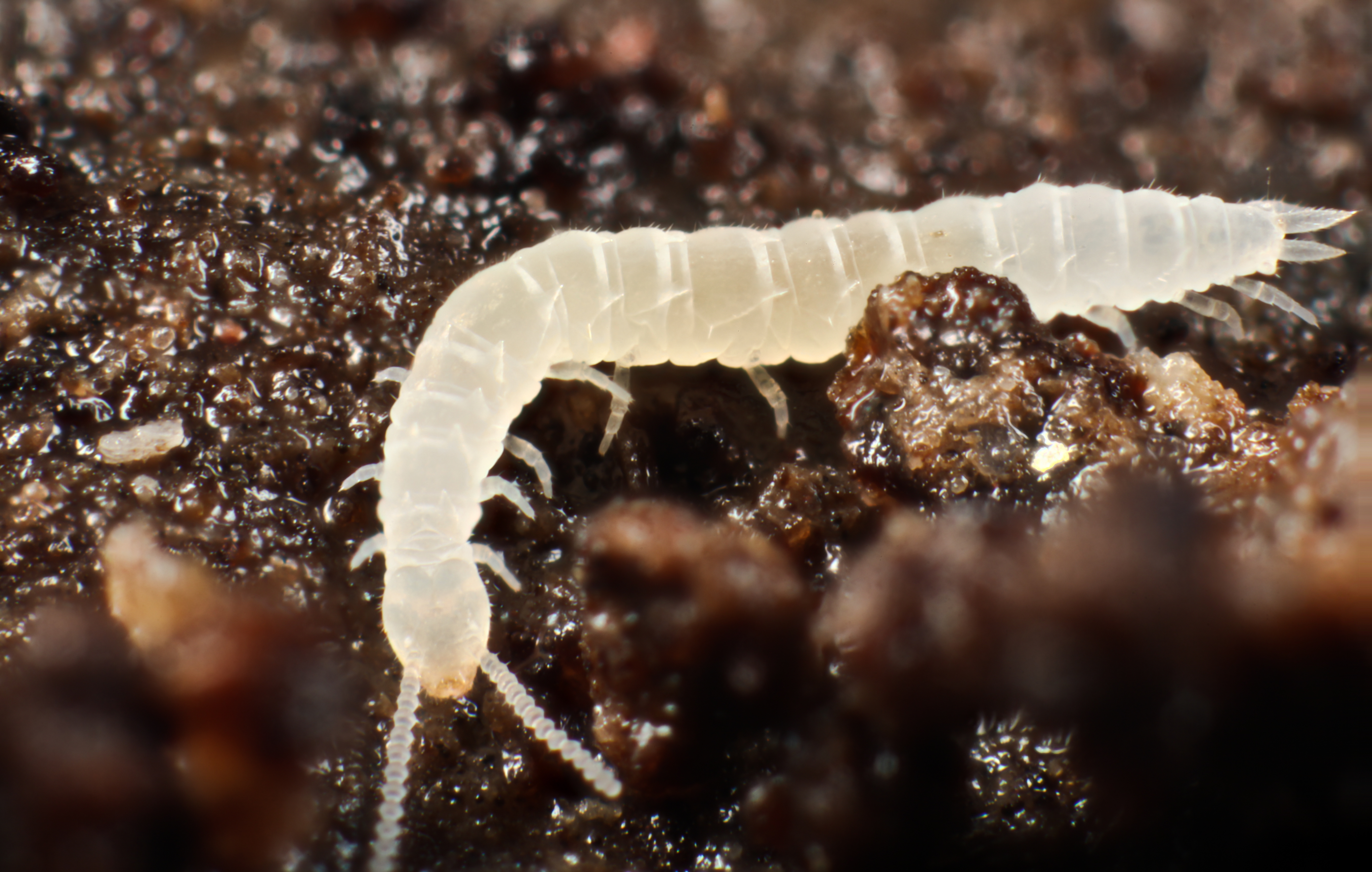 A symphylan from East Pennard, England. This one was about 1.5mm long, with curious double spikes down the length of the body. This was from the winery cellar I go into occasionally.... a six stack photo.